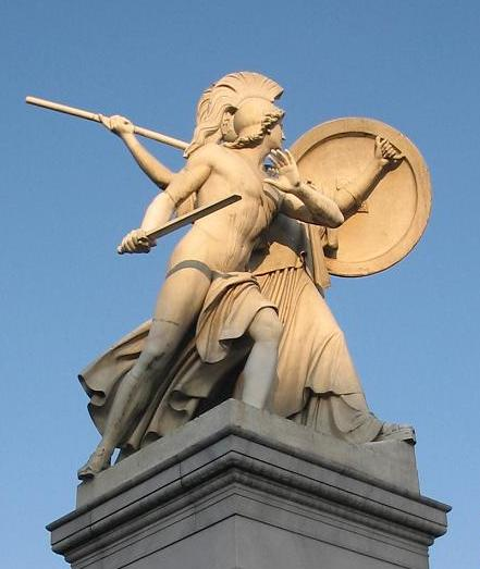 Palace bridge in Berlin, Athena protects the young hero (Der unter dem Schutze Pallas Athenes zum Kampf ausfallende Krieger) by Gustav Blaeser 1854